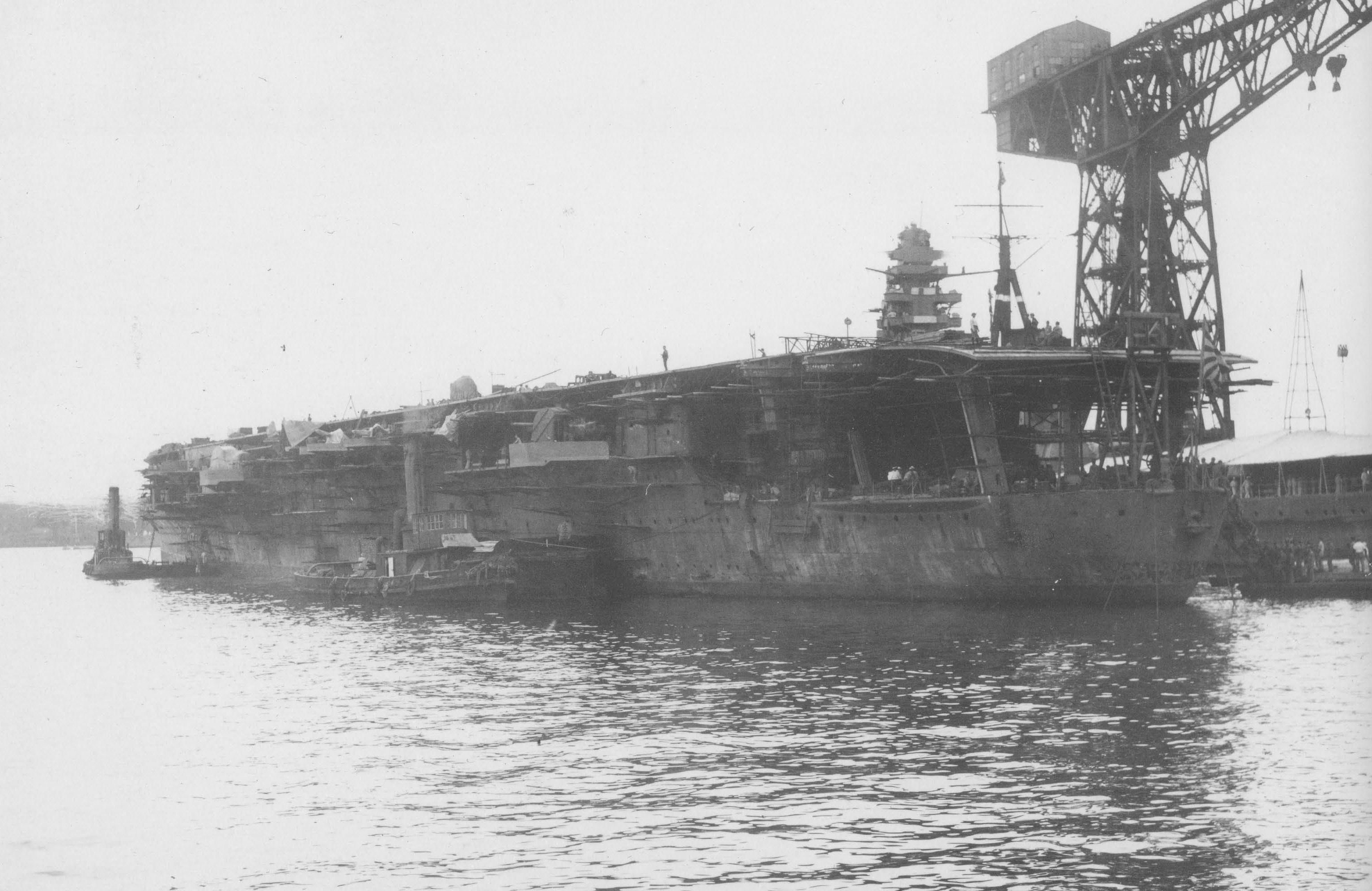 Imperial Japanese Navy ship Shōhō undergoes conversion from a submarine tender to a light aircraft carrier at Yokosuka, Japan.